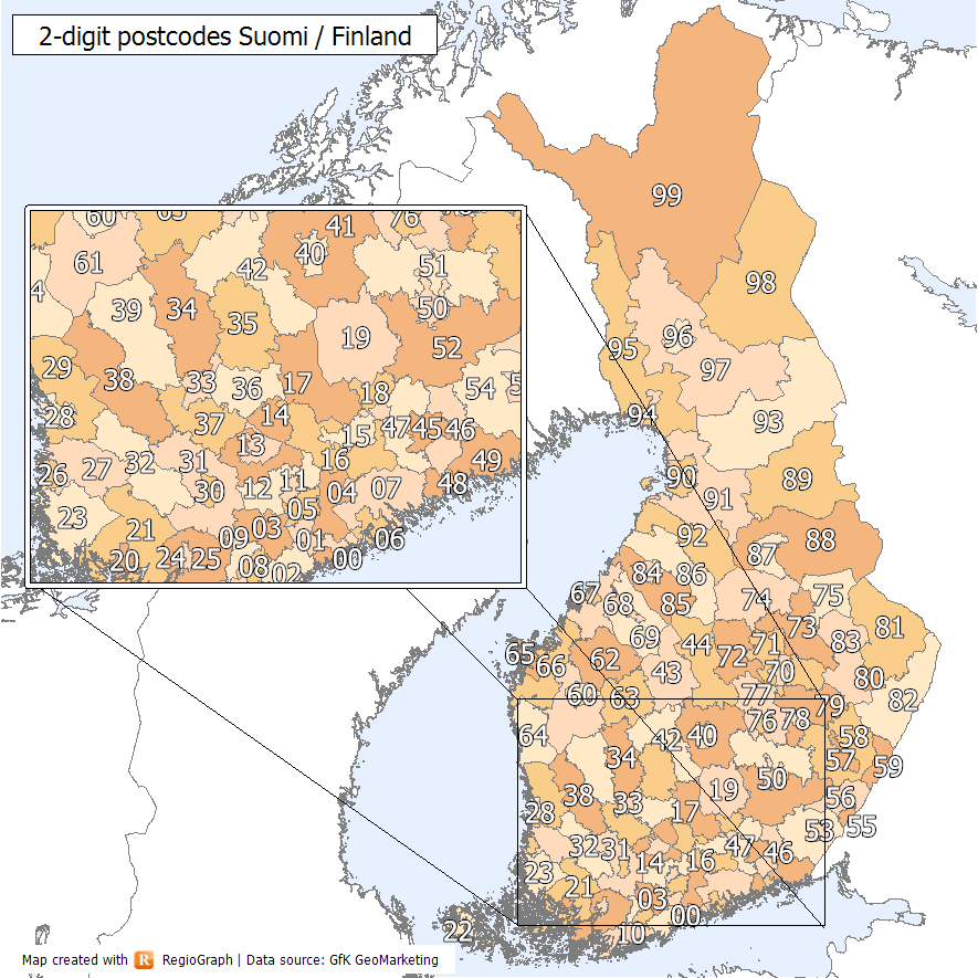 2-digit postcode areas Finland (defined through the first two postcode digits).